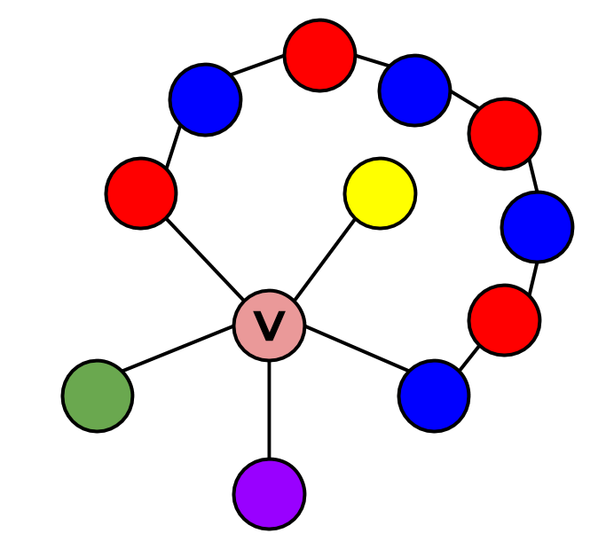 A graph containing a Kempe Chain consisting of alternating blue and red vertices. Kempe Chains like this one were used in attempts at proving the four color theorem.